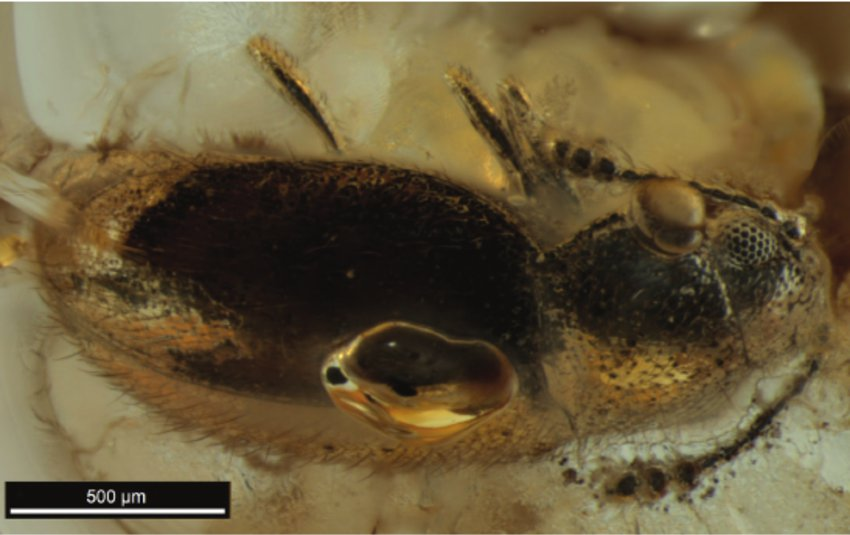 Cryptophagus alexagrestis sp. n., holotype (SIZK K-24572, Schmalhausen Institute of Zoology, Kiev) A: body, dorsal B: body, lateral C: front part, dorsal.